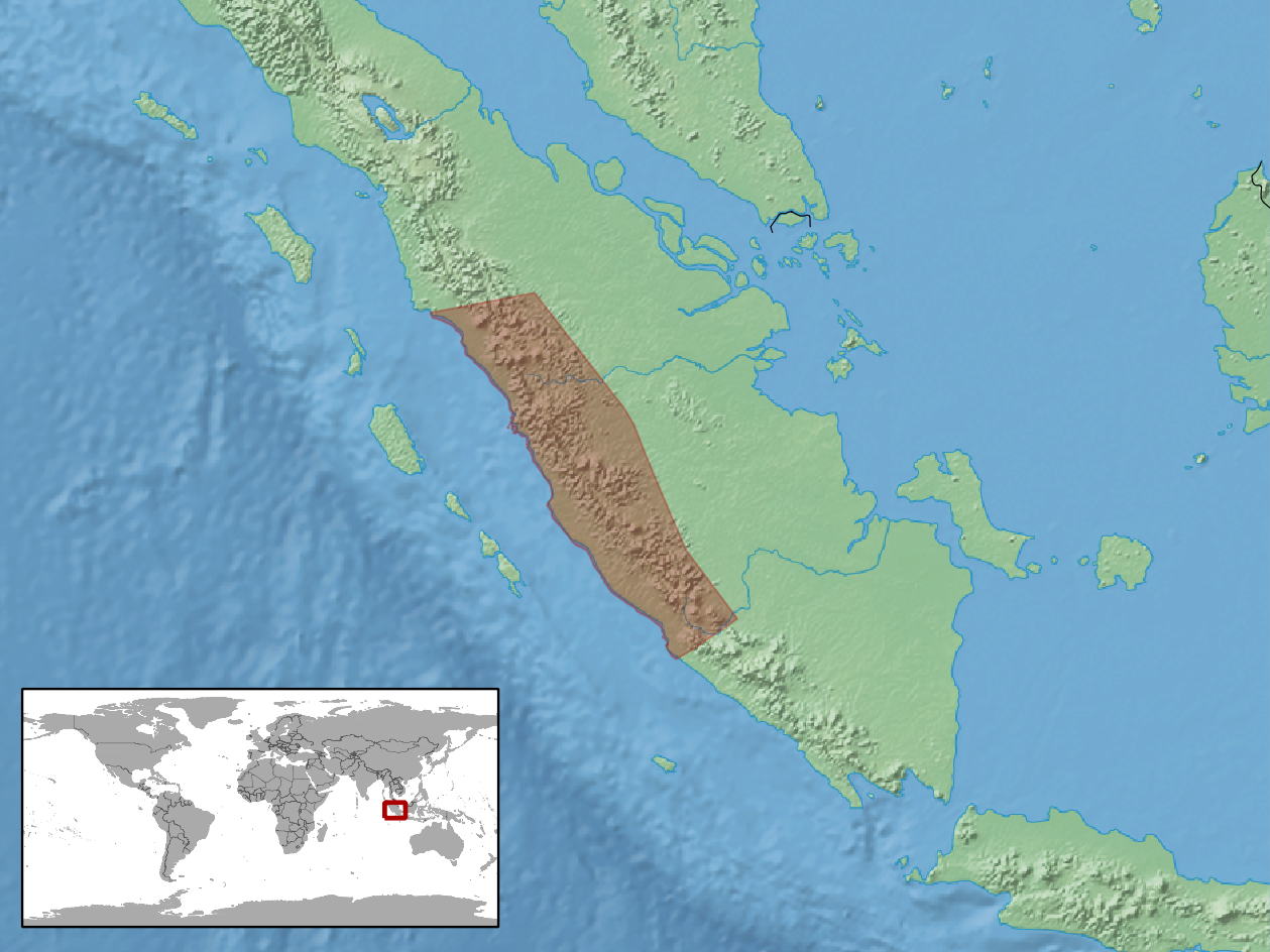 geographic distribution of Calamaria alidae (Native: Indonesia (Sumatera))